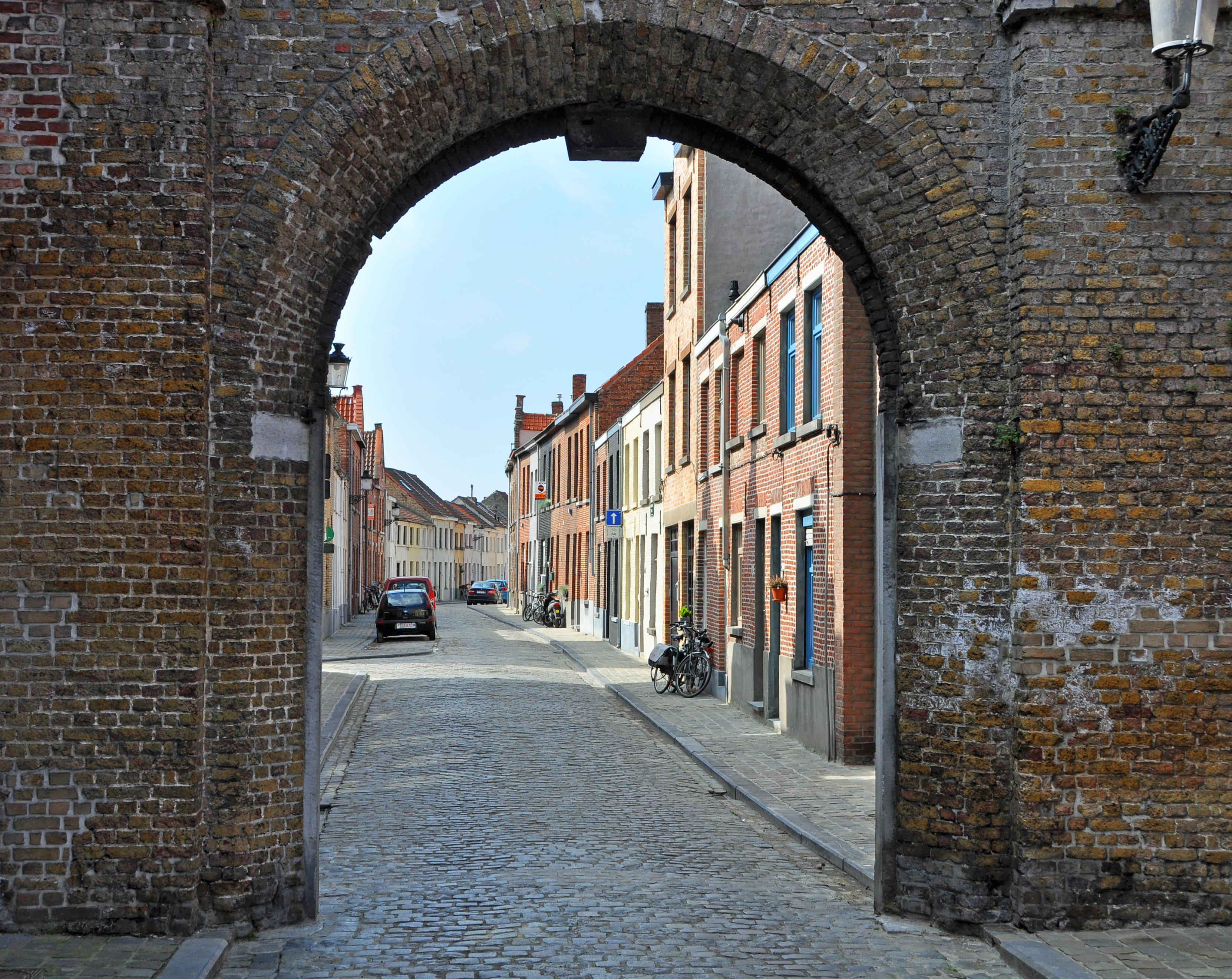 Bruges (Belgium): Balsemboomstraat